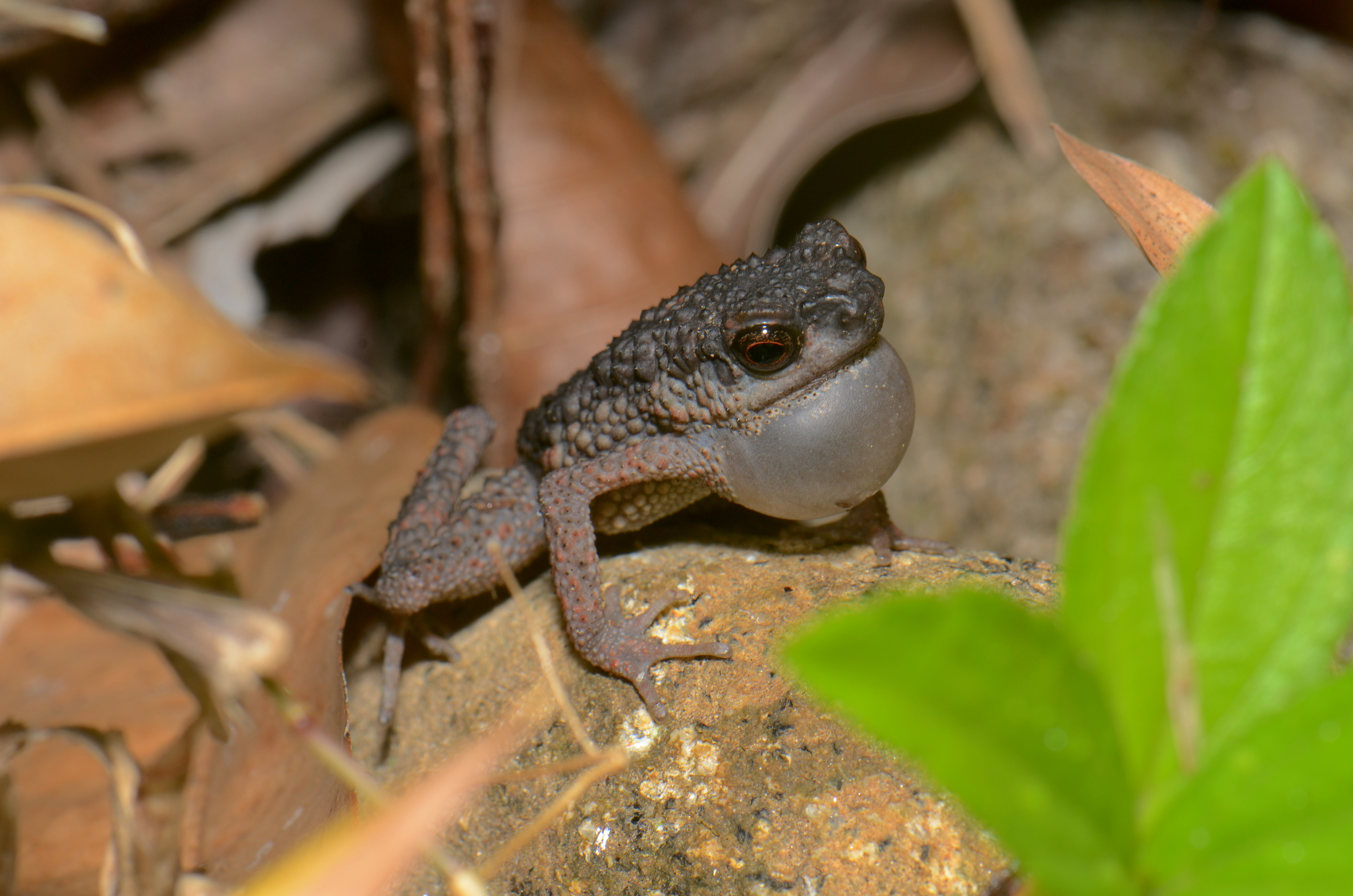 Thanks to Anton for ID